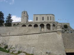 The Citadelle in Sisteron (France)